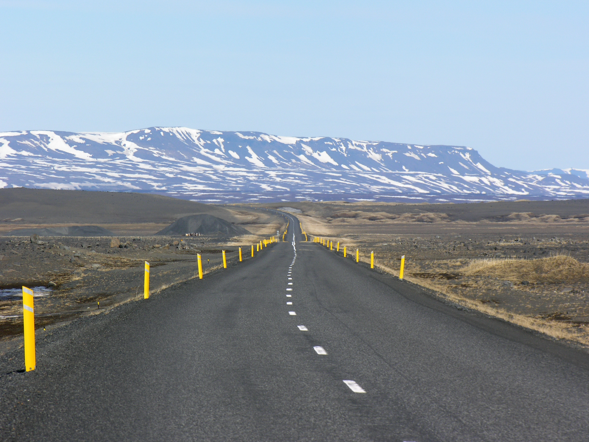 Iceland, along the ring road - Hringvegur - in the Eastern part of Iceland.